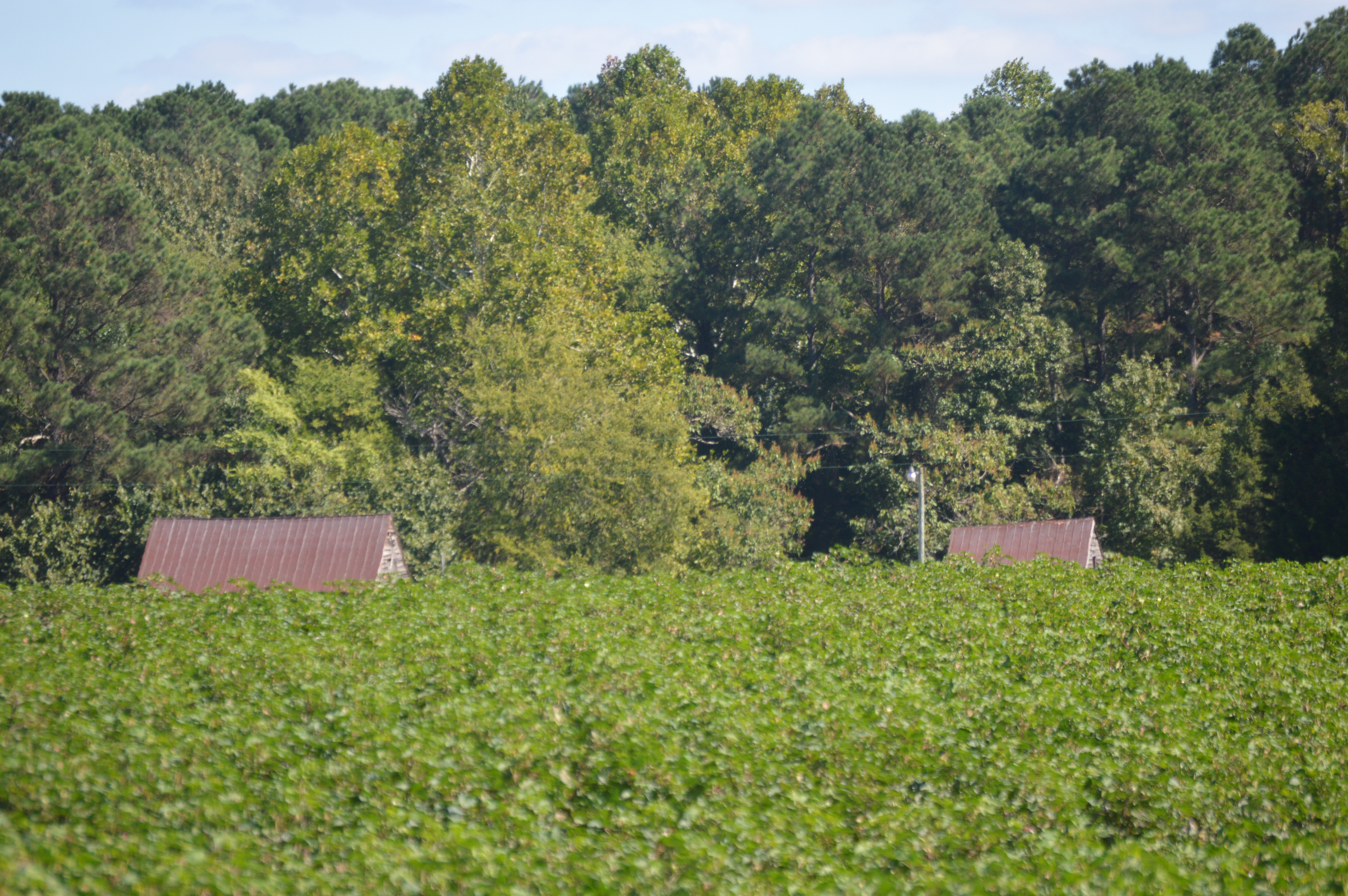 Buildings at the Walnut Valley farmstead and archaeological site, located on Highgate Road northwest of Bacon's Castle in Surry County, Virginia, United States. The farmstead is listed on the National Register of Historic Places.